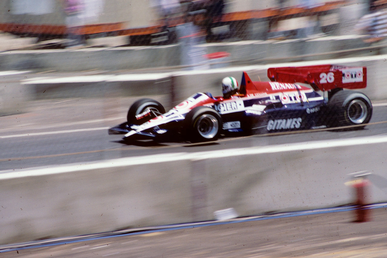 Andrea de Cesaris driving for Ligier at the 1984 United States Grand Prix (Dallas).